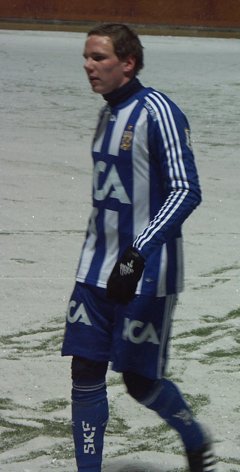 Mathias Etéus from IFK Göteborg's youth team played with IFK Göteborg's first-team in a friendly match against Fredrikstads FK in Göteborg february 19th, 2009.